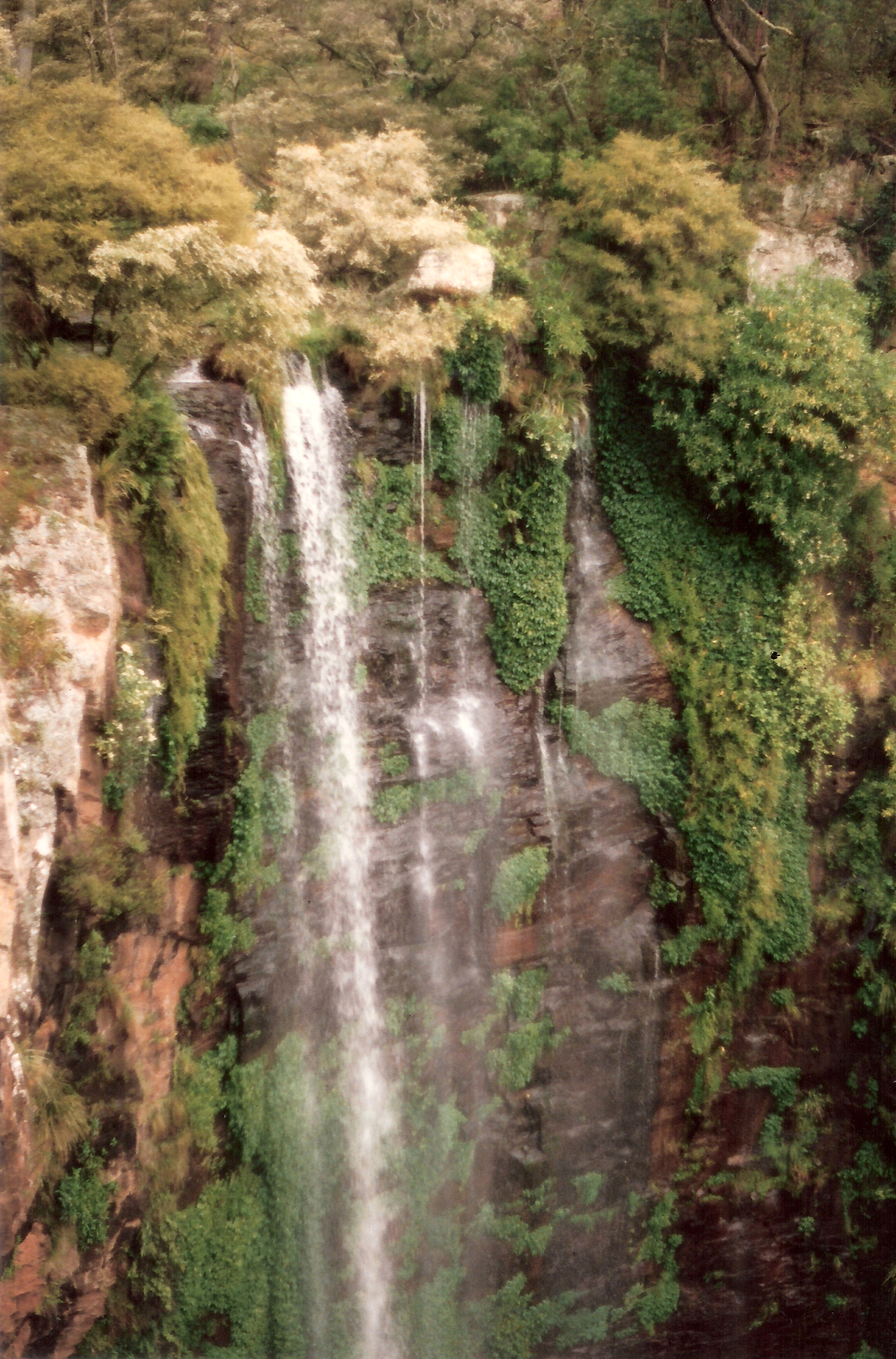 Scan of photo of Queen Mary Falls, Queensland, Australia